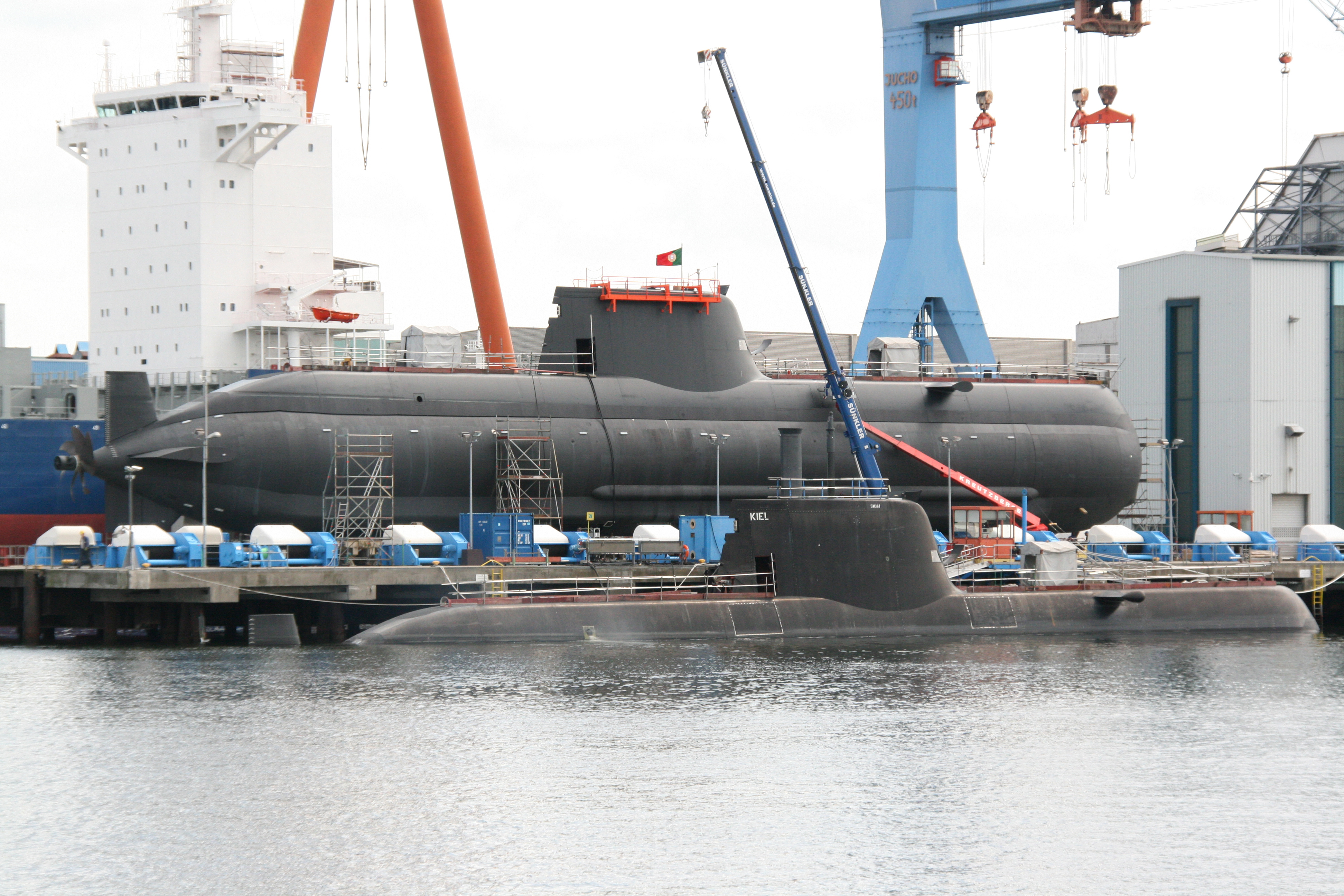 Portuguese submarine NRP Tridente (docked) and Greek submarine S-120 Papanikolis (in the water) at HDW, Kiel, Germany